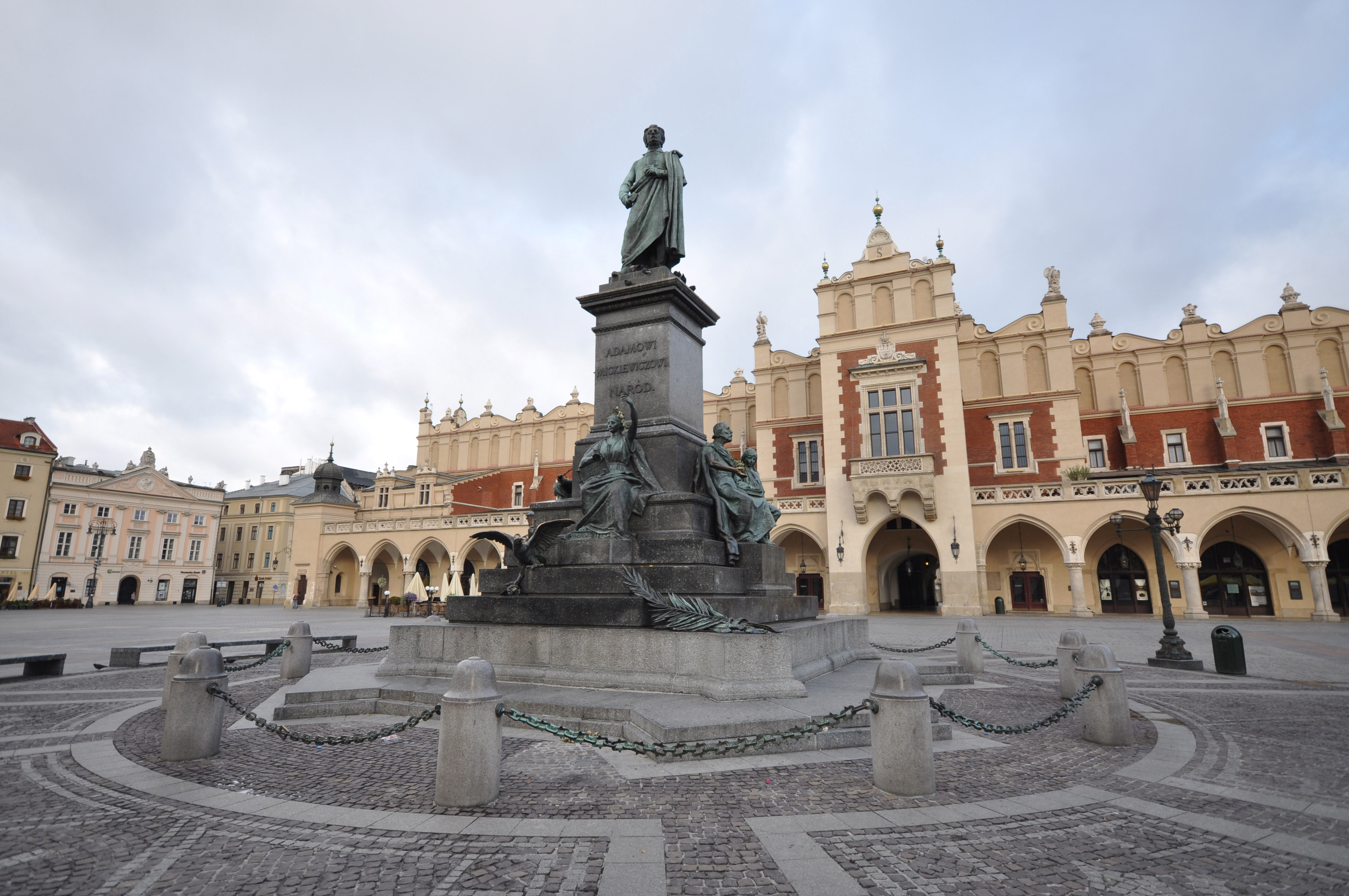 Adam Mickiewicz Monument, Kraków, Poland